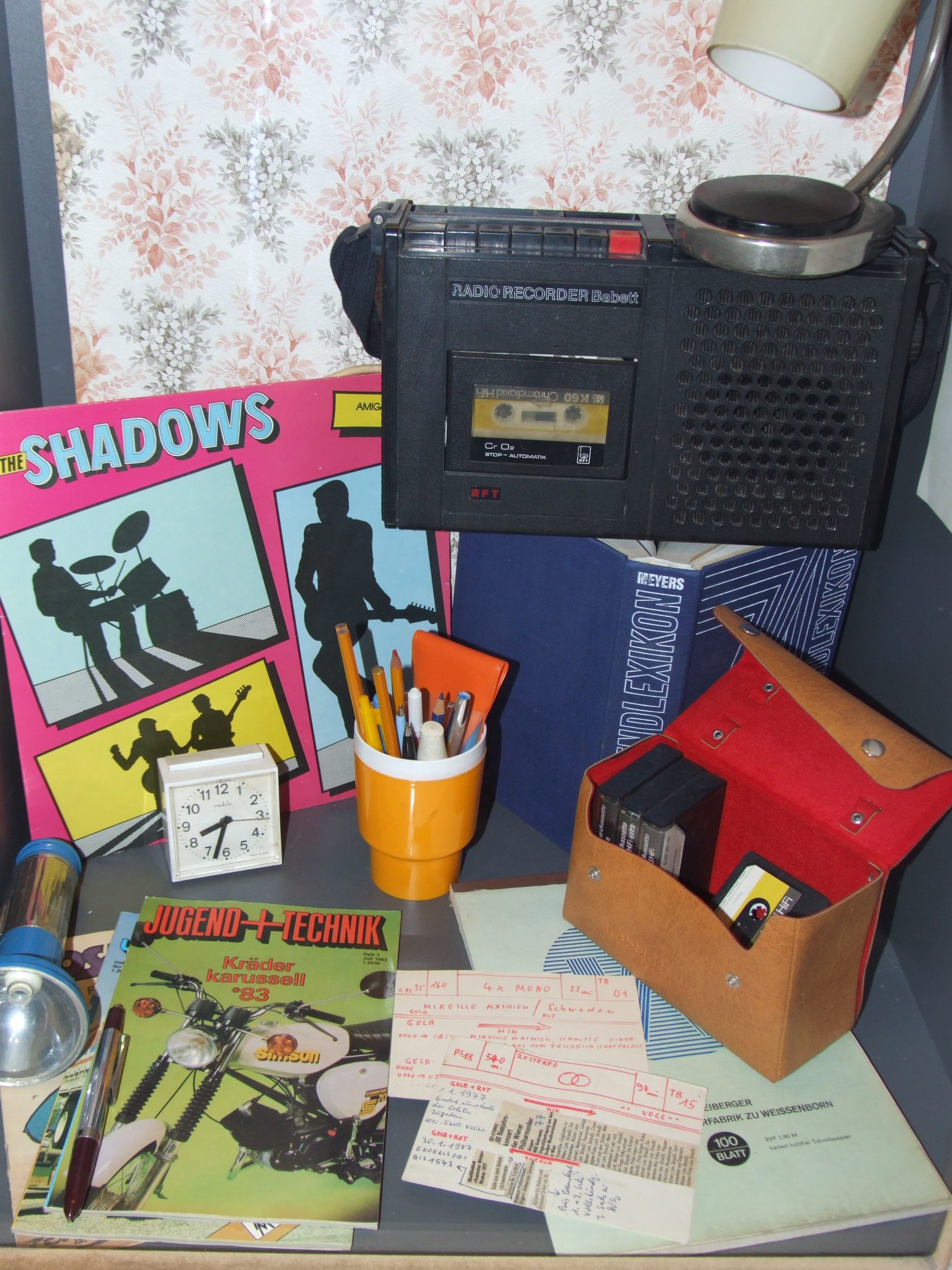 DDR Museum in Berlin - radiorecorder "Babett"